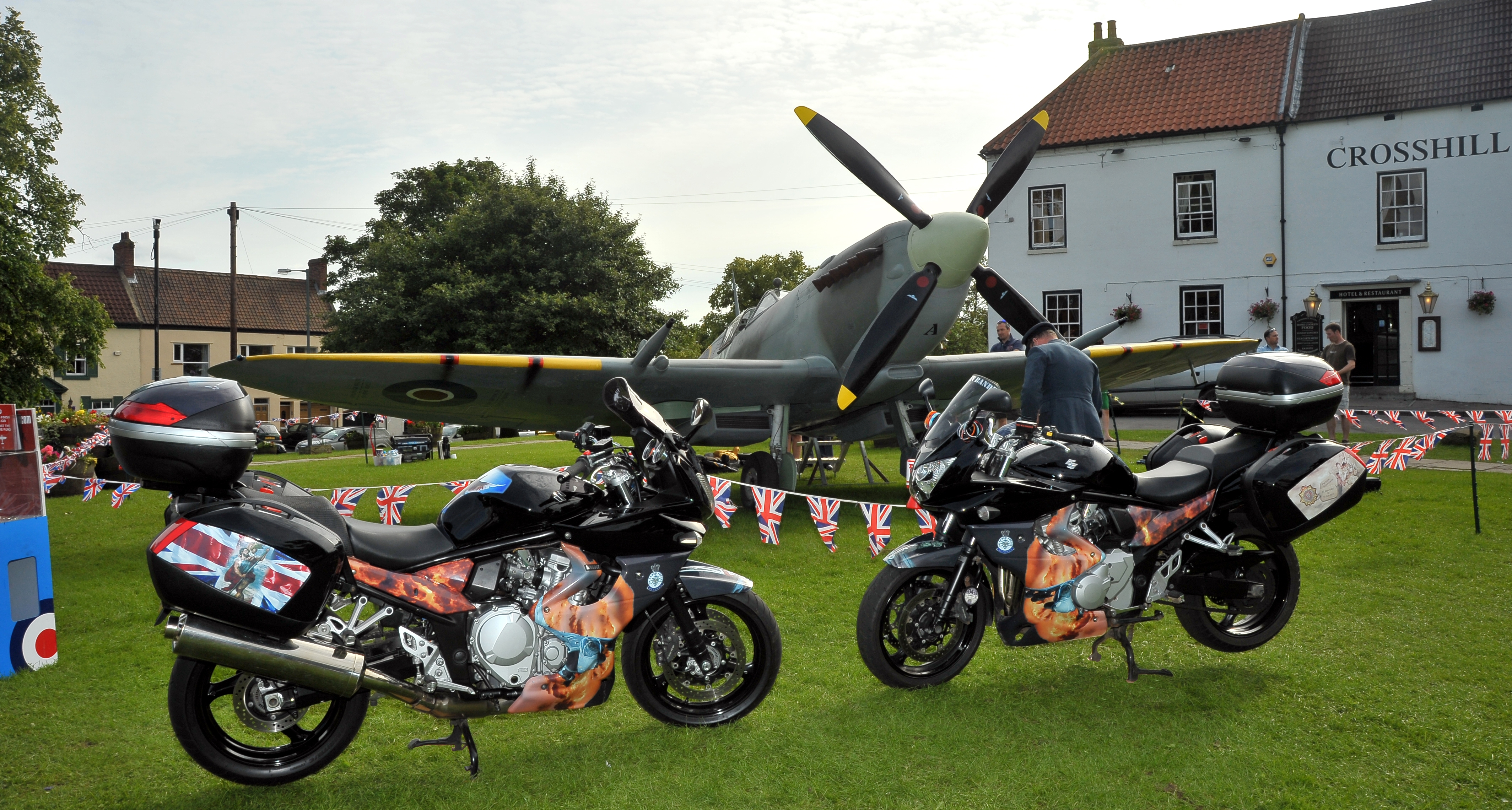 Bikes on show at the 2012 Sedgefield Veterans 1940's weekend on the Village Green